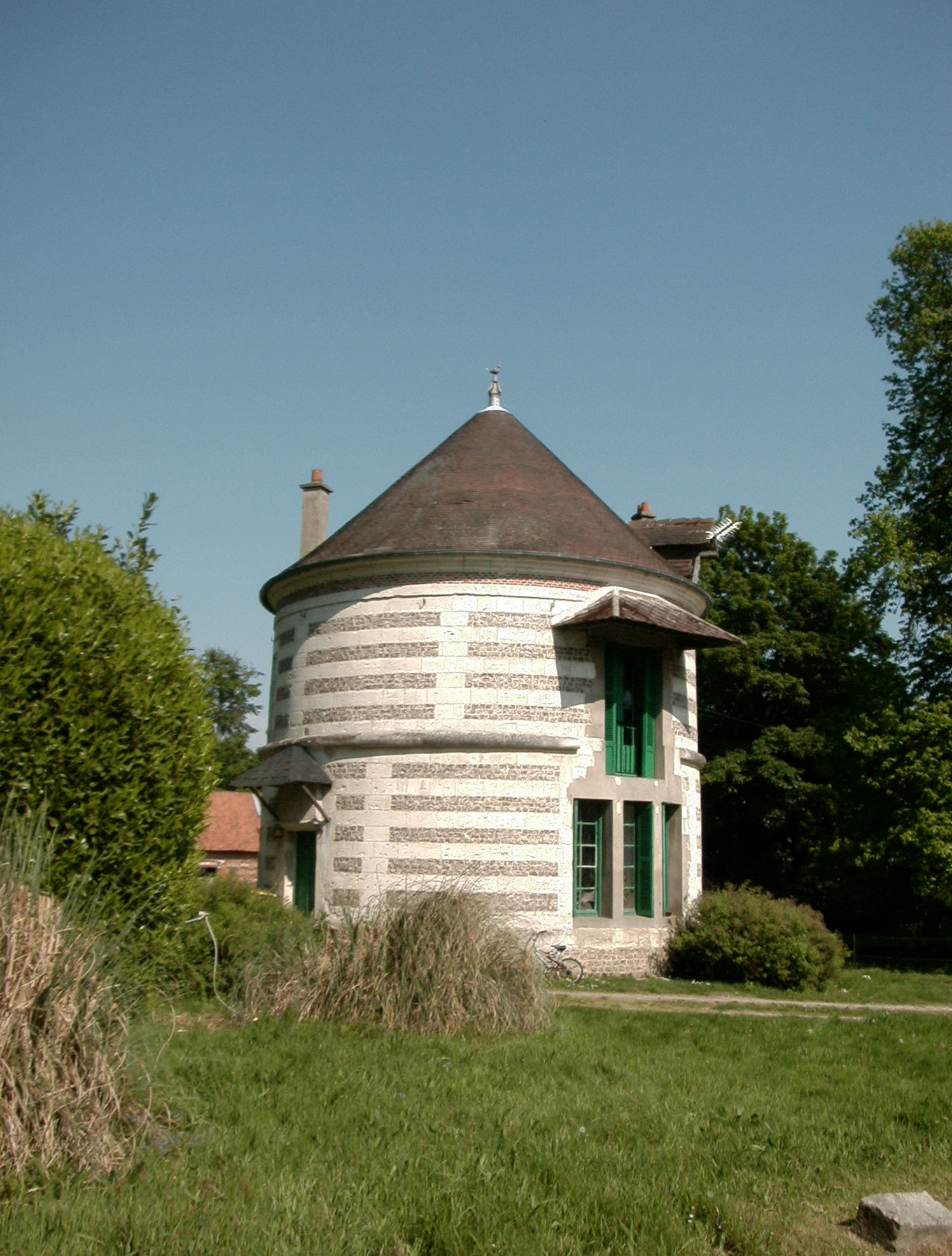 castle of Filières in Normandy